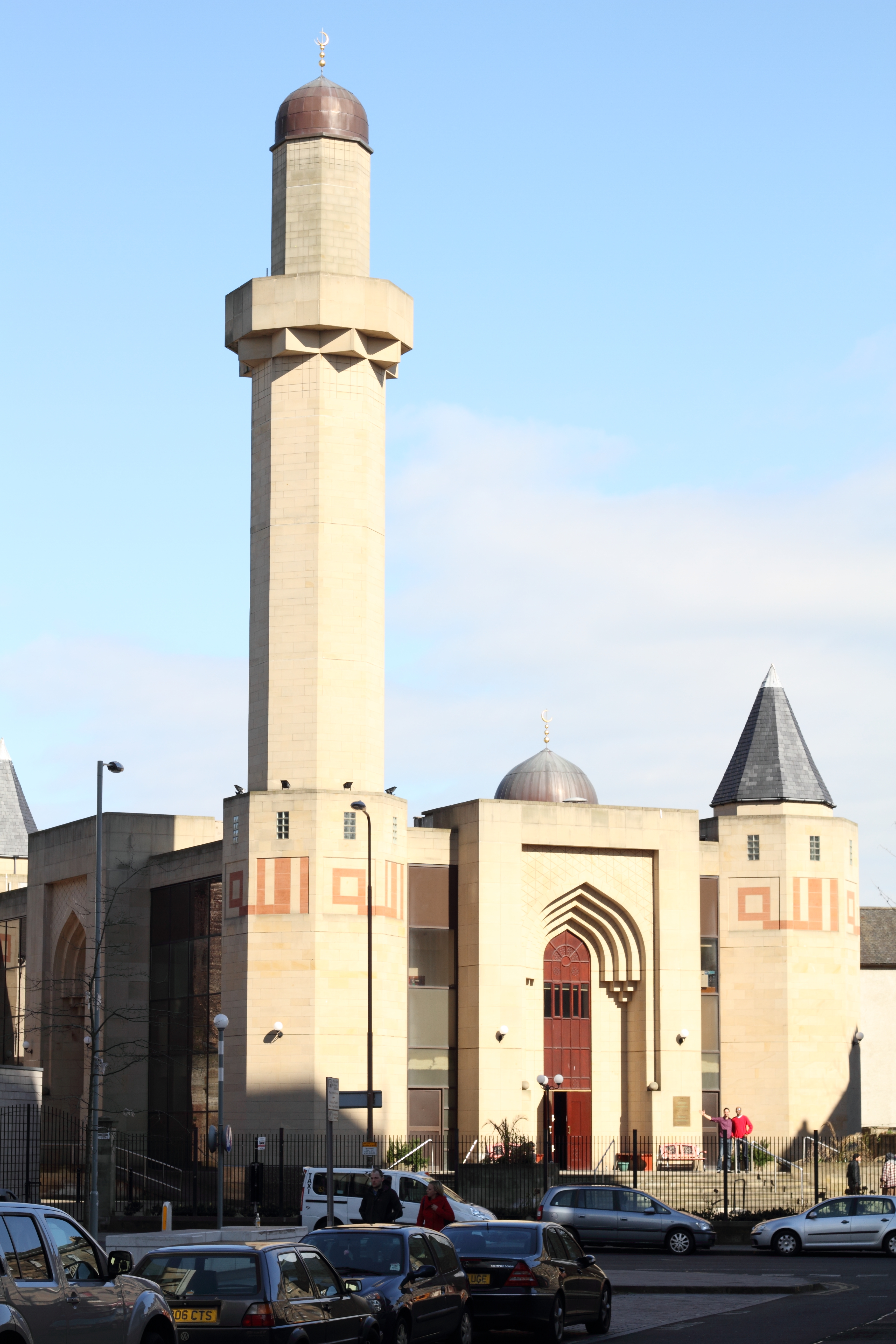 A view of the Edinburgh mosque from down the road. The mosque kitchen restaurant is run near the rear of the mosque in a separate enclosure.